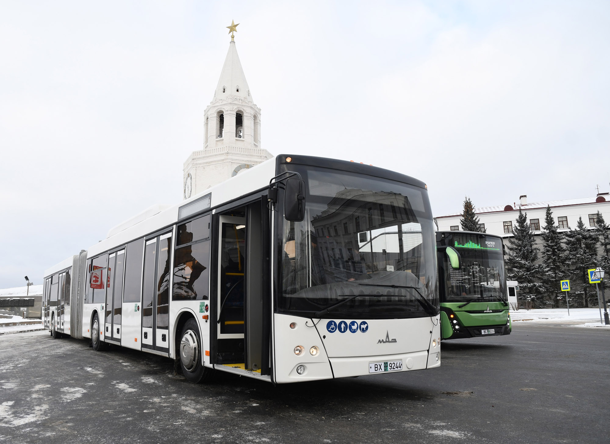 MAZ-215 (in the foreground) and MAZ-303 buses in Kazan at a presentation before the test operation.